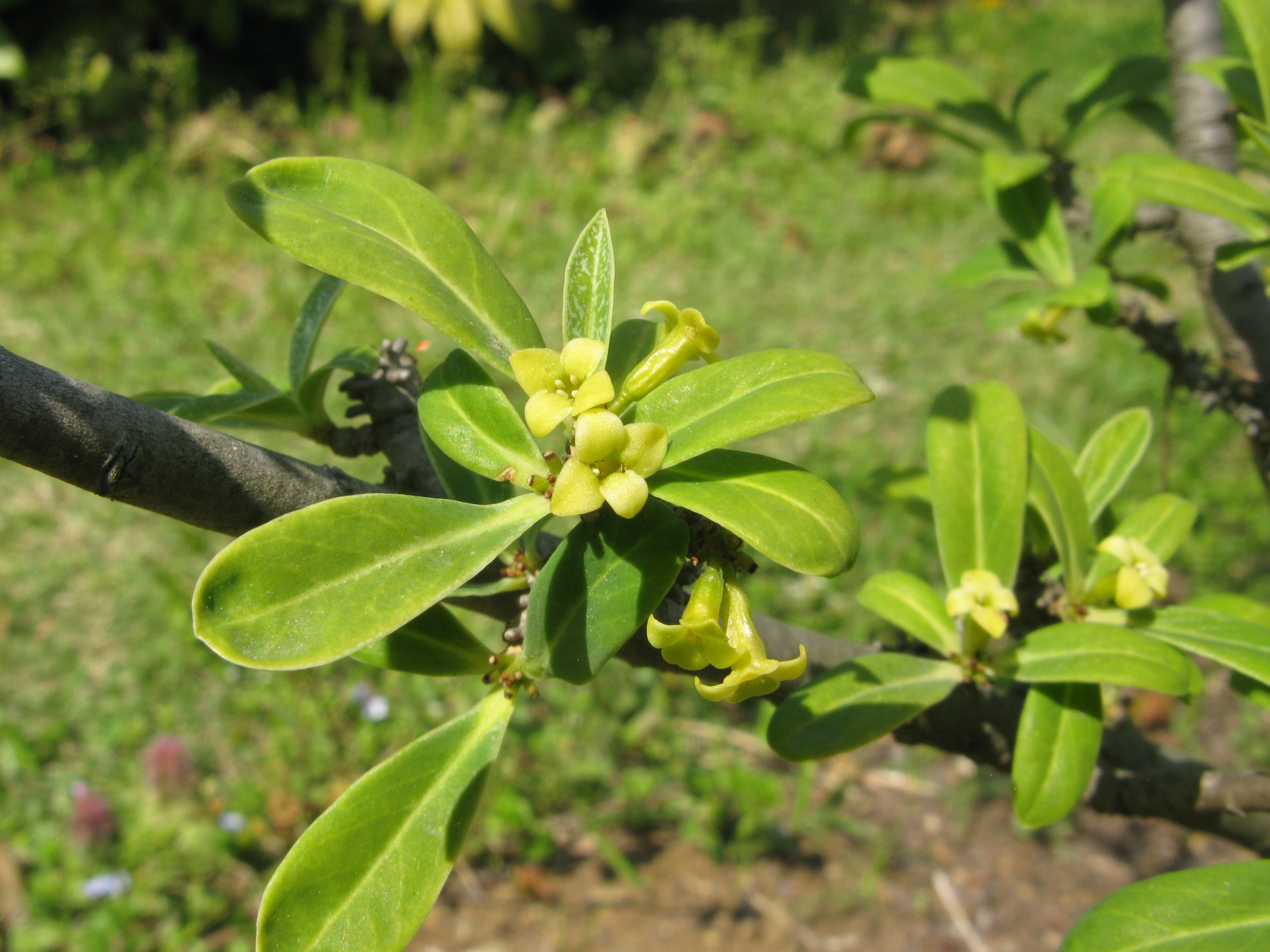 Daphne pseudomezereum, Koishikawa, Botanical Gardens, the University of Tokyo, Japan